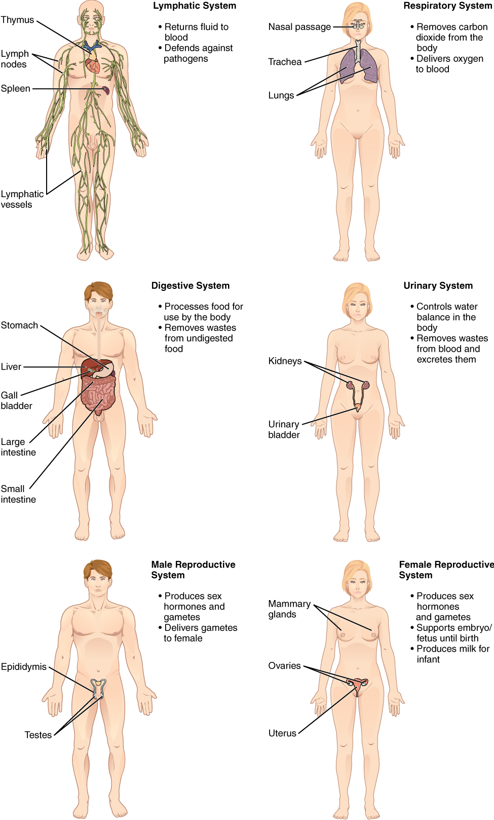 Organ Systems of the body (image 2 of 2)